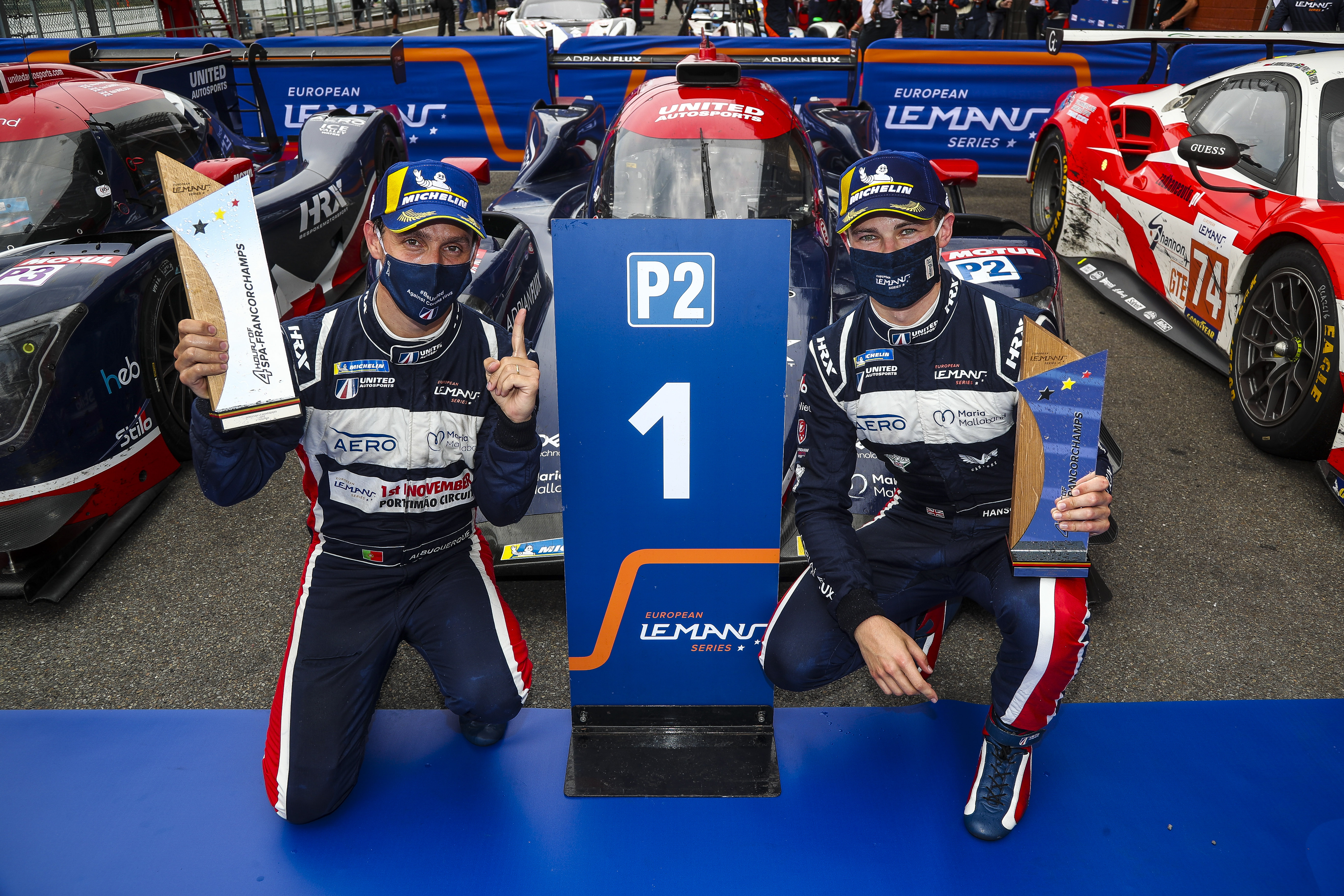 22 Oreca 07 - Gibson / UNITED AUTOSPORTS / Philip Hanson / Filipe Albuquerque